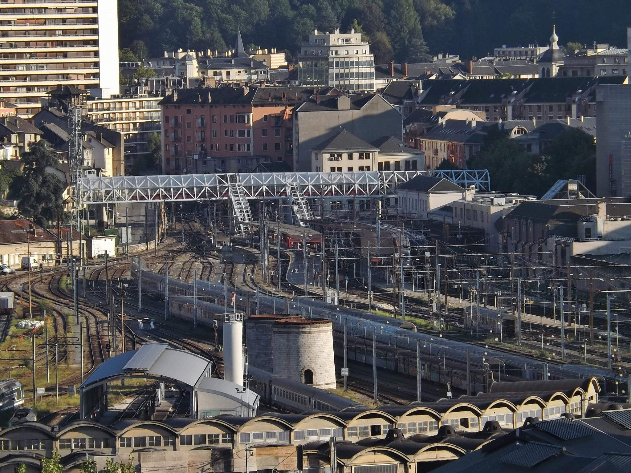 Panoramic sight of the city of Chambéry railway station (Savoie, France), with visible the new footbridge recently installed and still under construction.